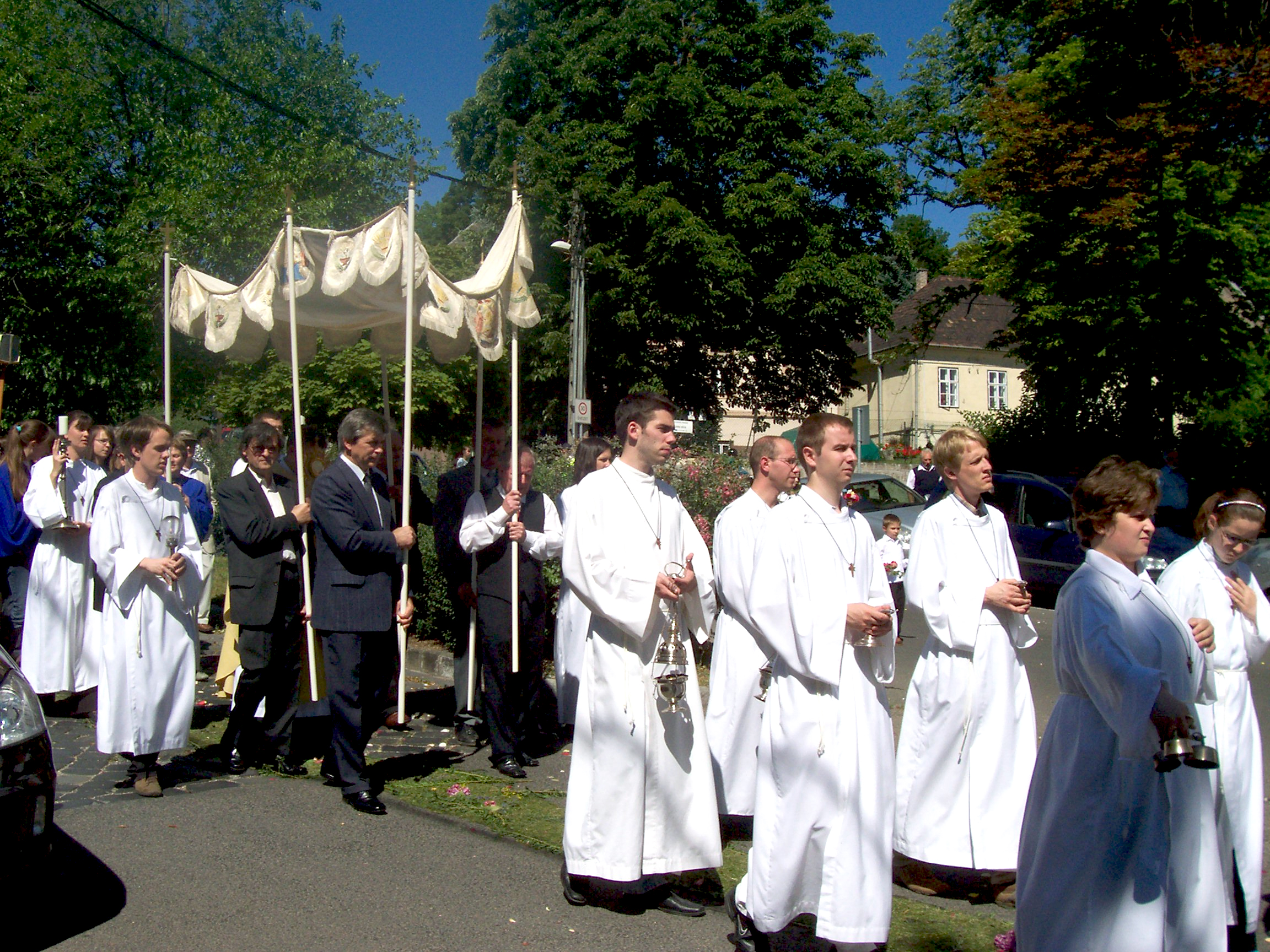 Corpus Christi procession